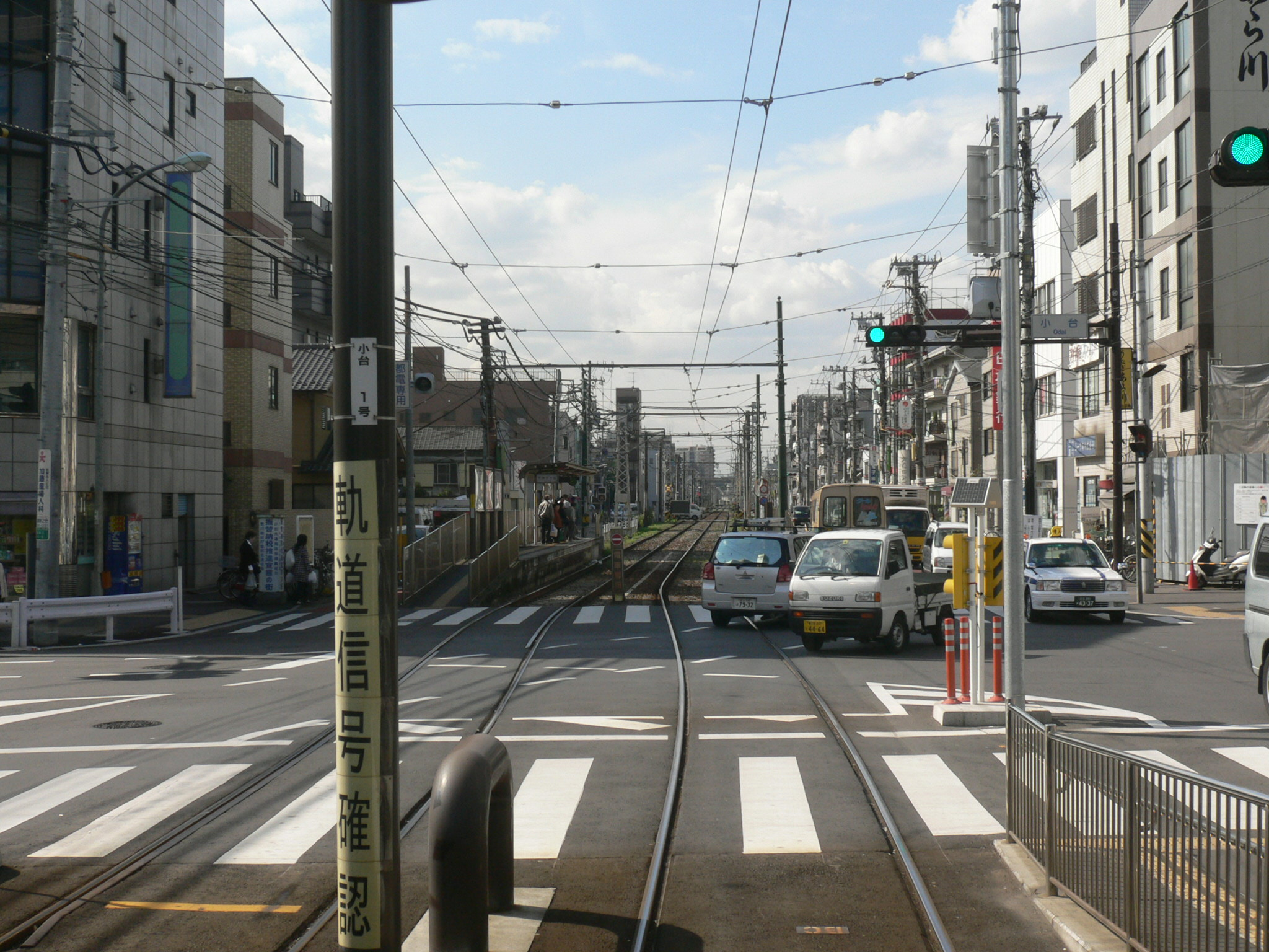 Odai Station (Toden Arakawa Line), Tokyo M.